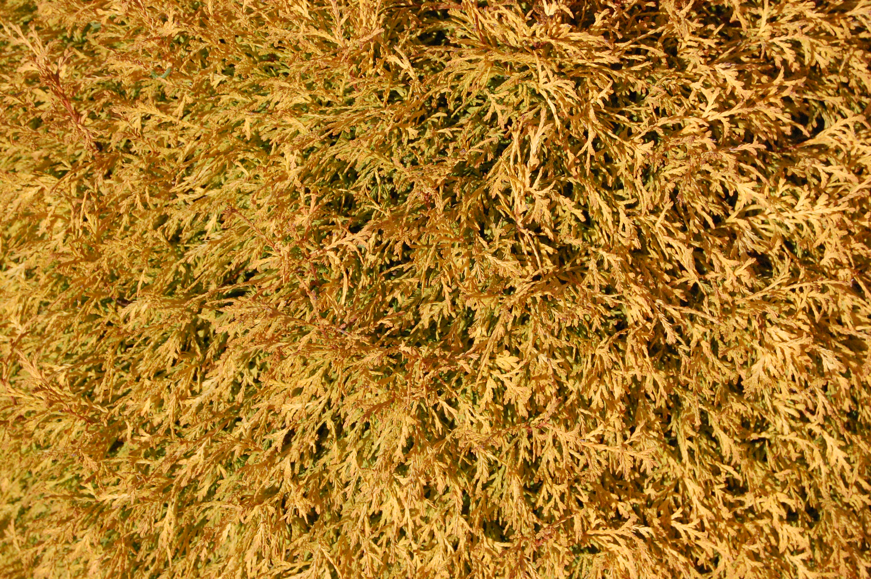 Specimen of Thuja occidentalis 'Rheingold' photographed at Pacific Nurseries, Streetley, West Midlands, England, in Autumn.